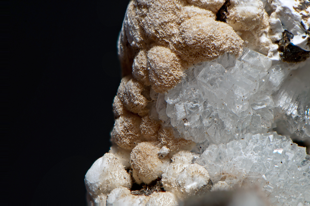 Tacharanite, Phillipsite-Na Locality: Palagonia, Northern Iblean plateau, Catania Province, Sicily, Italy Original description: Spheres of color 'cream' of Tacharanite on Phillipsite-Na. F.O.V. 1 cm. Collection and photo of Gianfranco ciccolini